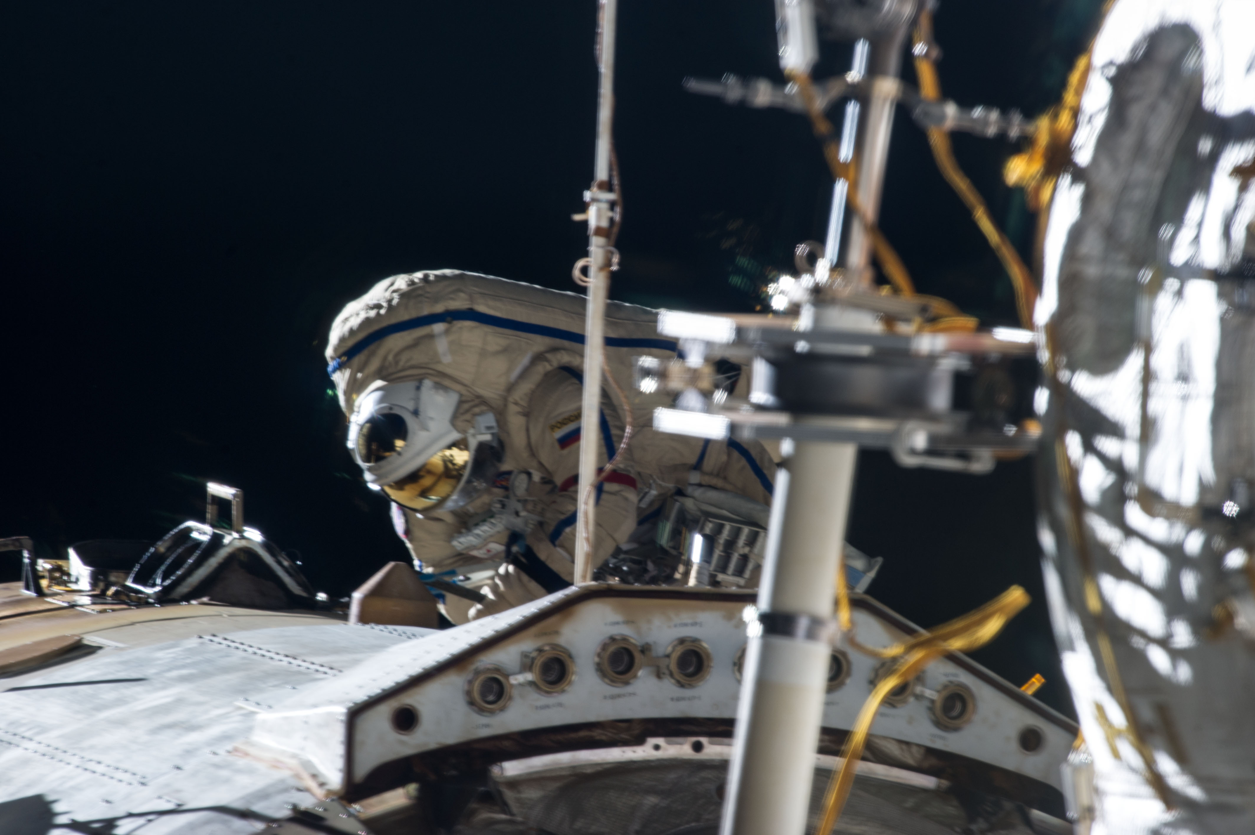 Expedition 35 Russian cosmonaut Pavel Vinogradov translates outside the International Space Station on April 19, 2013, during the first spacewalk of the Expedition 35 mission. Vinogradov and fellow cosmonaut Roman Romanenko (out of frame) went on to spend about six hours upgrading the station's exterior hardware.